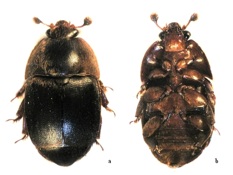 Aethina tumida Common Name: small hive beetle Photographer: James D. Ellis, University of Florida, United States Descriptor: Adult(s) Description: dorsal and ventral views; Grahamstown, South Africa; 2003 Image taken in: United States